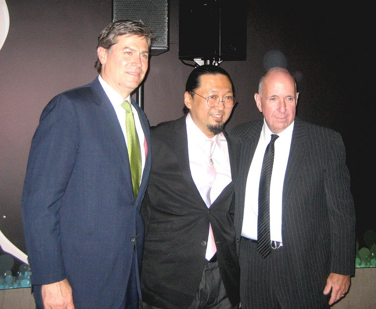 Takashi Murakami with Brooklyn Museum Director Arnold Lehman, taken at the preview of ©Murakami at The Brooklyn Museum